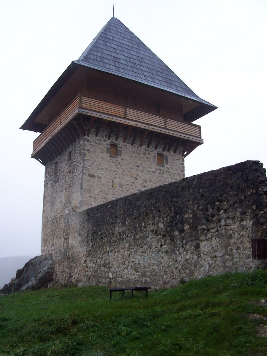 Kljuc (Bosnia and Hercegovina) Old Town Tower